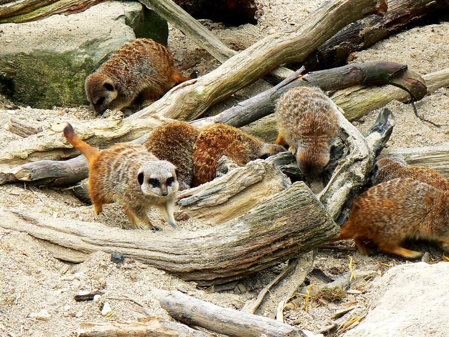 Cotswolds Wildlife Park: Meerkats These small animals are related to mongooses and come from the deserts of southern Africa. They don't seem to mind the cold climate of England in April.